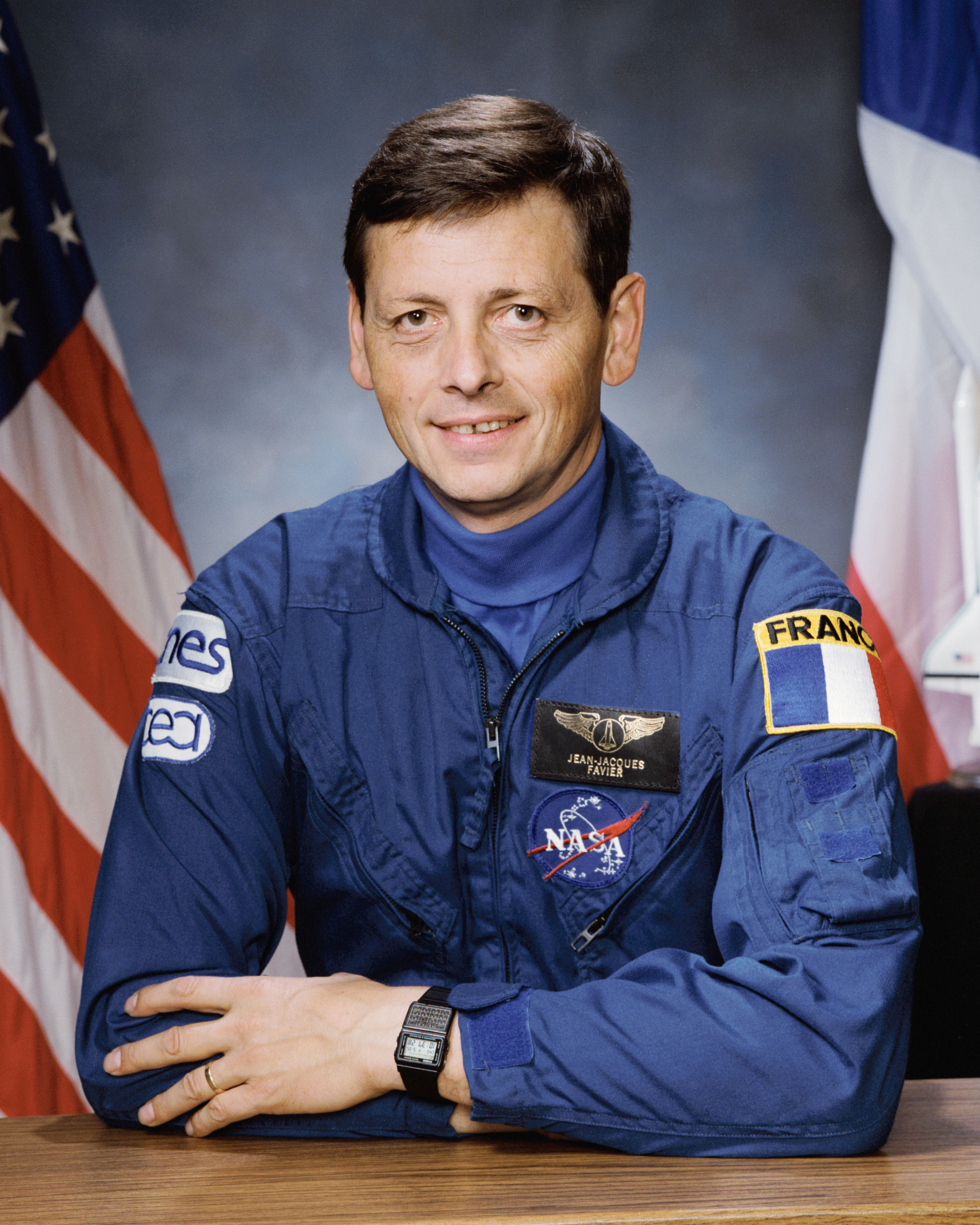 Portrait astronaut Jean-Jacques Favier